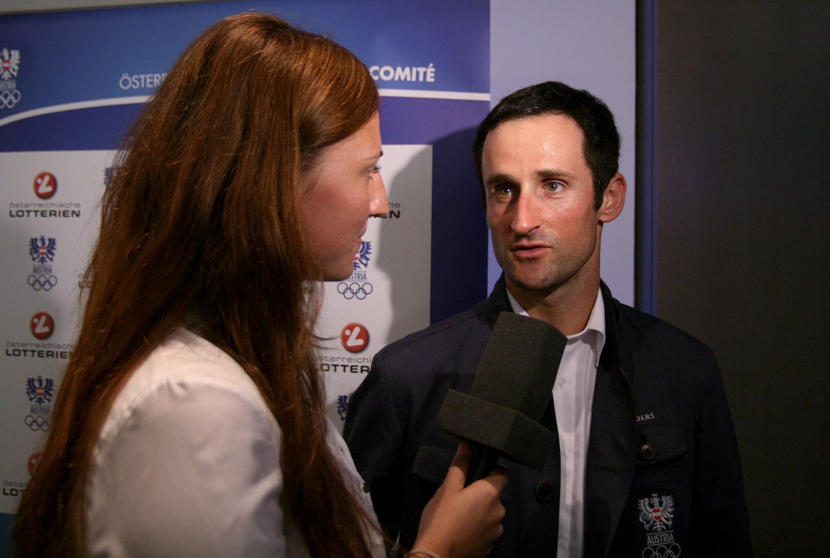 Mirna Jukic with Karl Markt at the farewell party for the Austrian team for the 2012 Summer Olympics in London (Vienna).